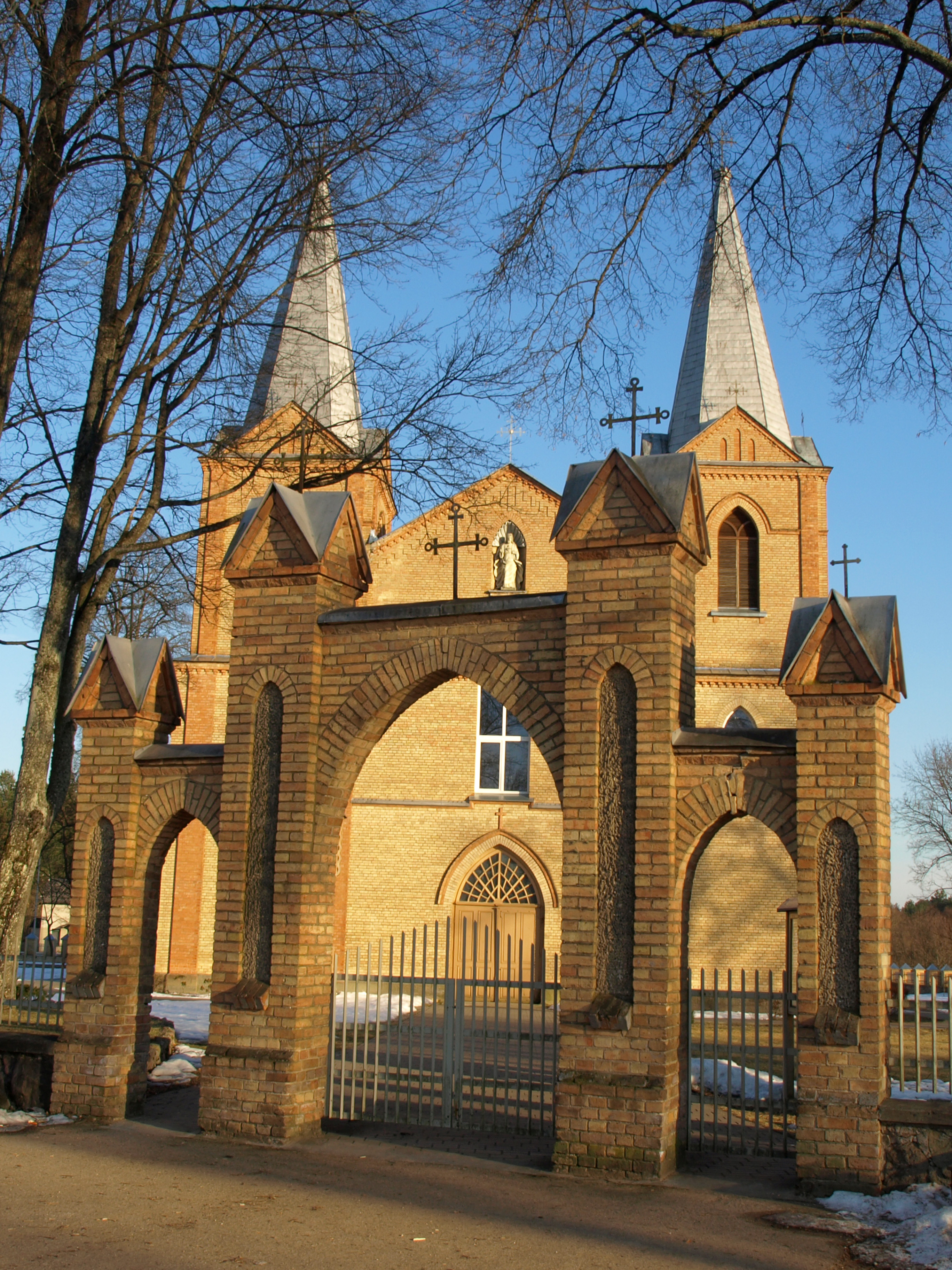 Ratnyčia church, Druskininkai municipality